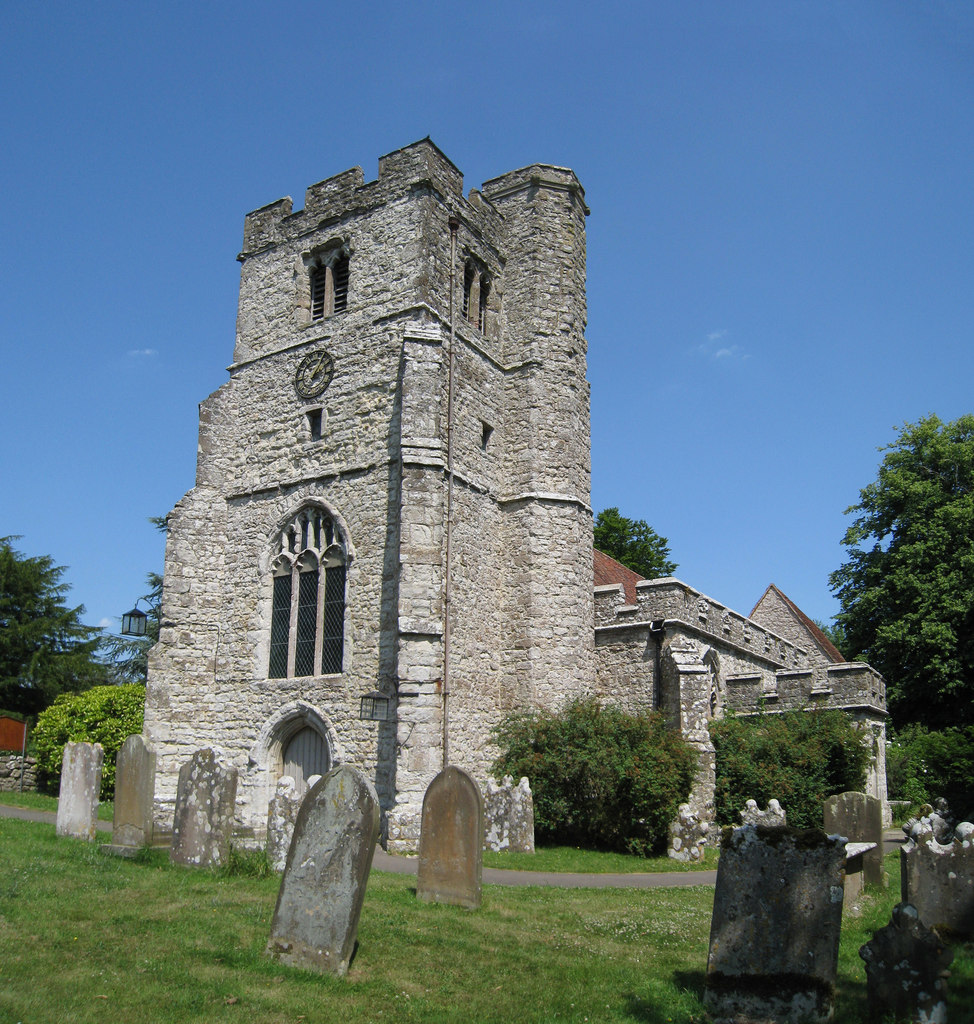 SS Peter and Paul parish church, Church Lane, East Sutton, Kent, seen from the southwest